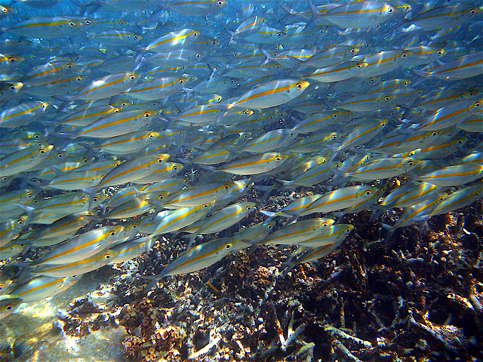 School of Goldband Fusilier, Pterocaesio chrysozona. The picture was taken in Papua New Guinea.